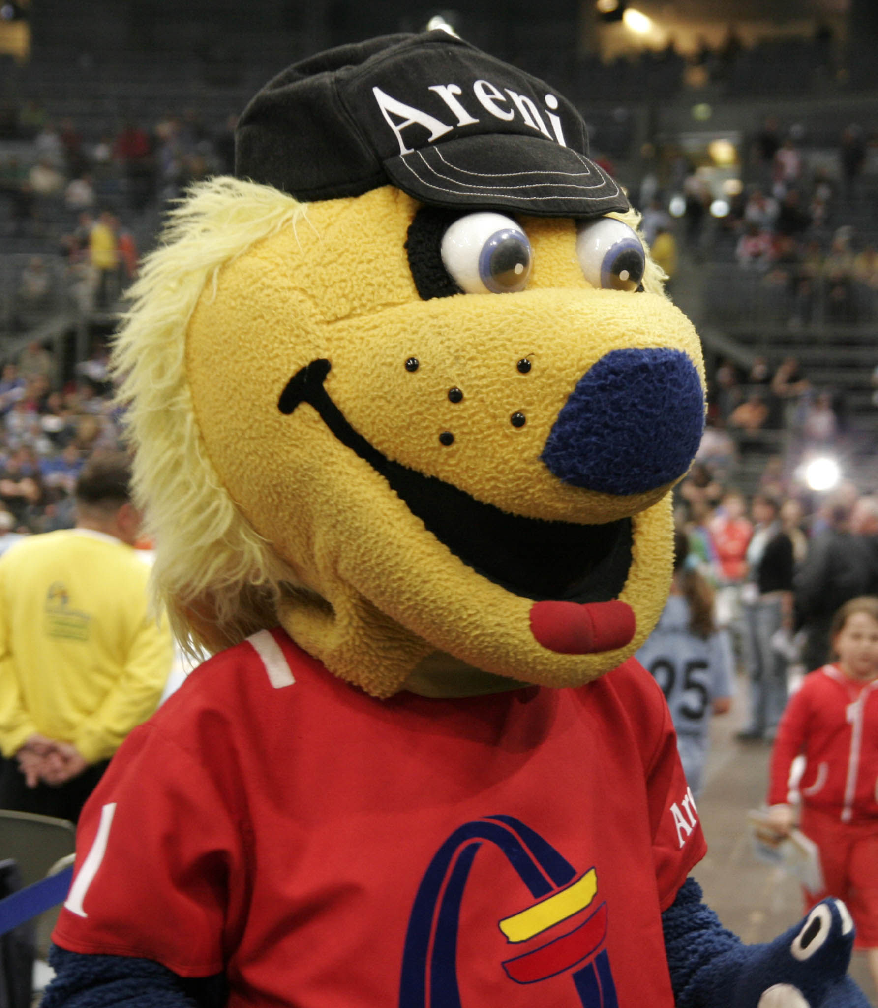 Areni, the mascot of the Kölnarena